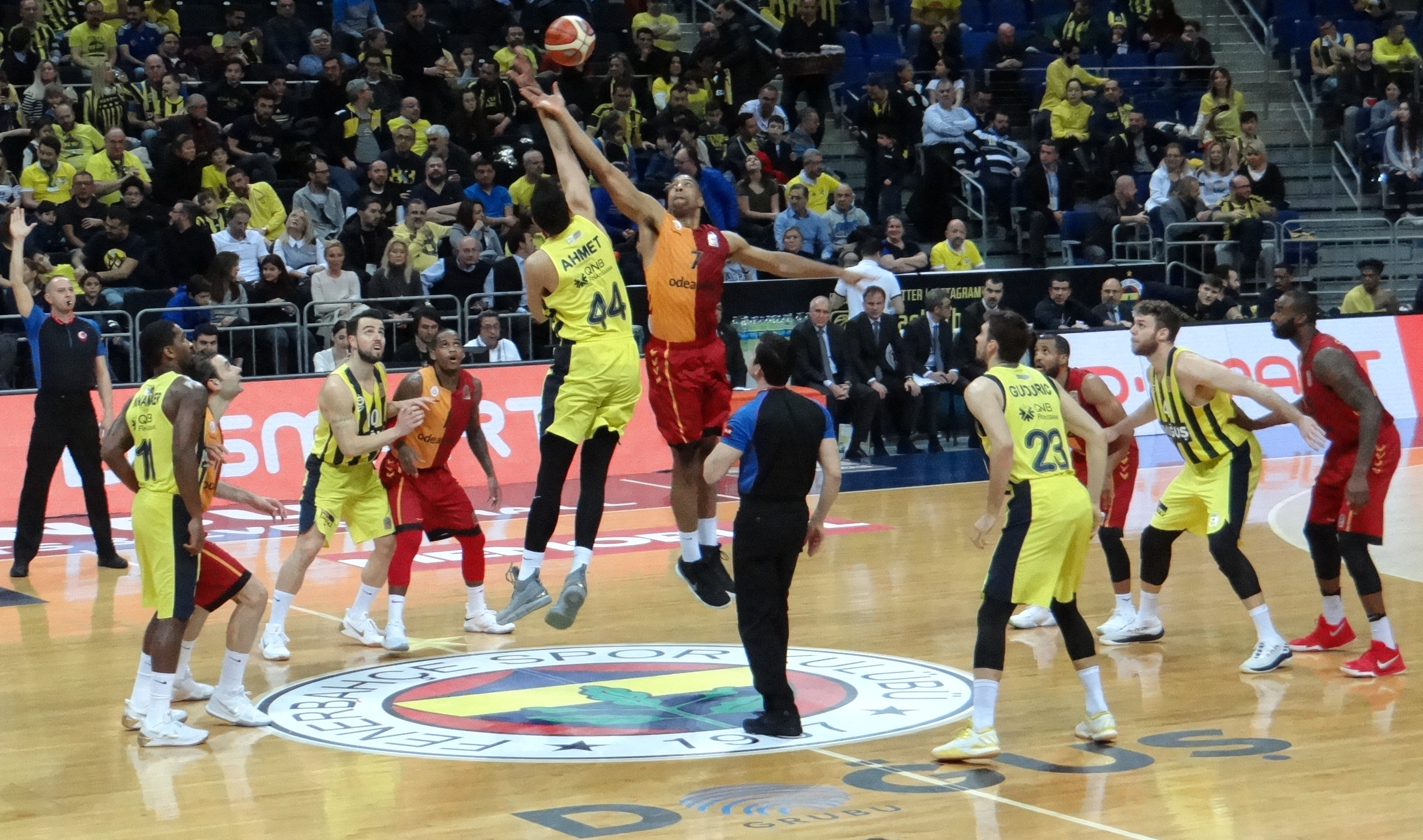 Fenerbahçe Men's Basketball vs Galatasaray Men's Basketball TSL 20180304